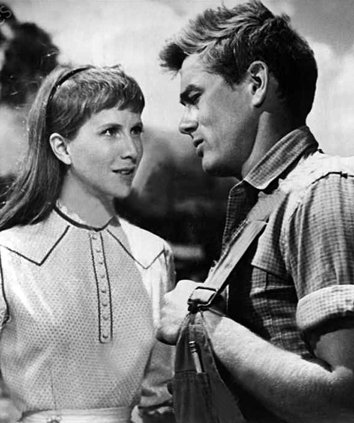 Publicity photo of James Dean and Julie Harris for East of Eden.